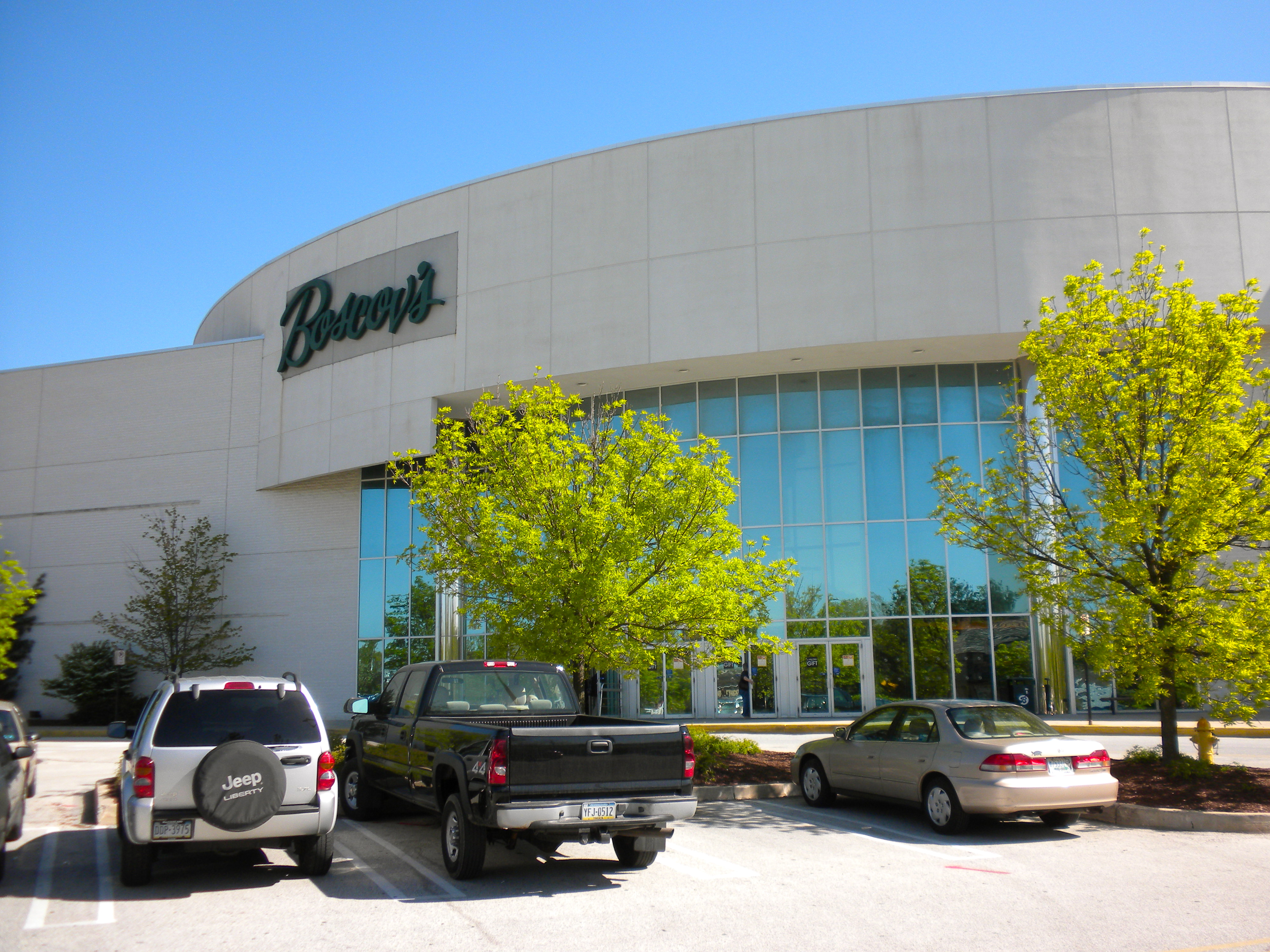 Boscov's Department Store in the Exton Square Mall. Built c. 1998 as an expansion to the mall, it displaced the Zook House which was on the NRHP in Chester County, PA